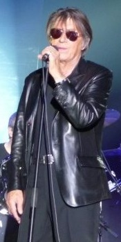 French musician performs live in Lorient, France in January 2010. This is a cropped version of the original image